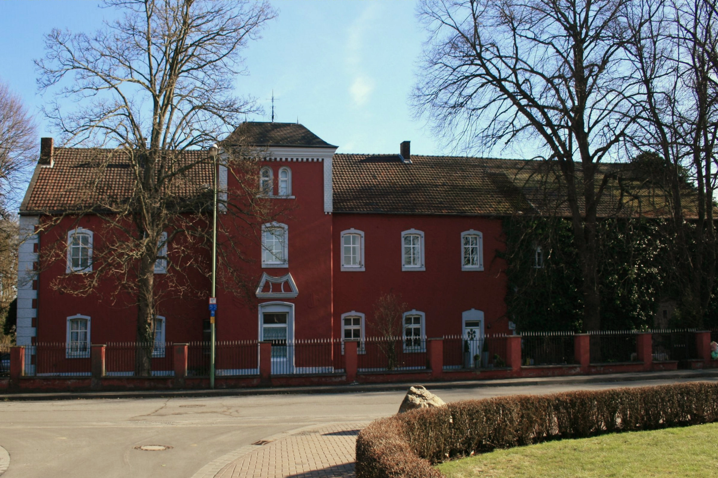 Cultural heritage monument No. 53 in Jülich